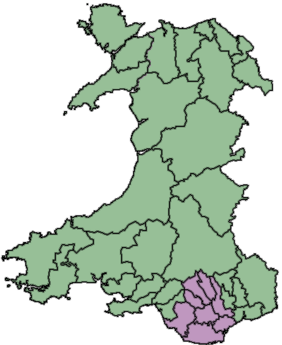 Mid & South Glamorgan Area of Search